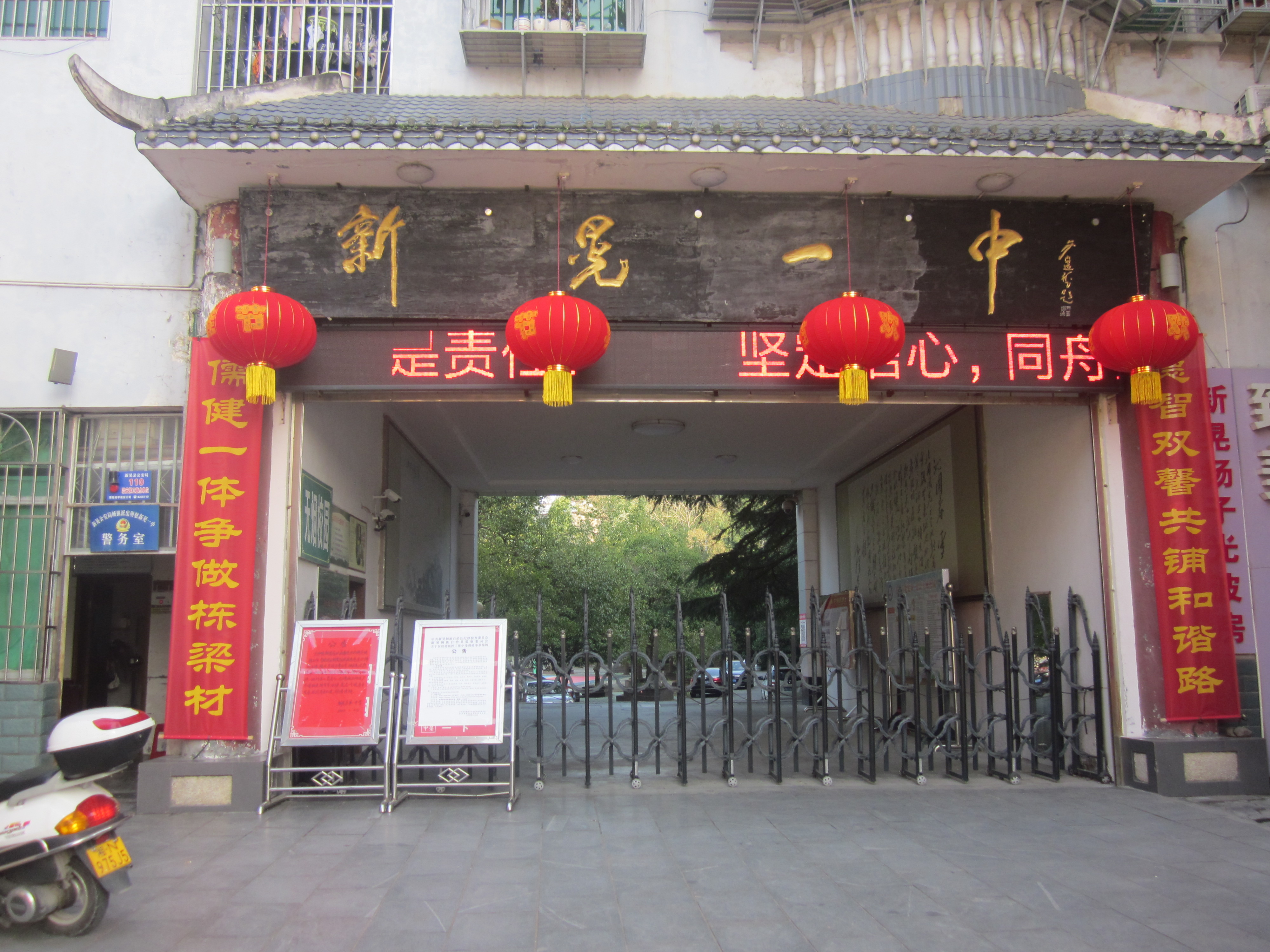 The School gate of Xinhuang Dong Autonomous County No.1 High School on 30 January 2020.